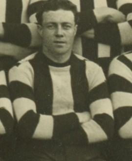 Photograph of Fred Fielding in 1913